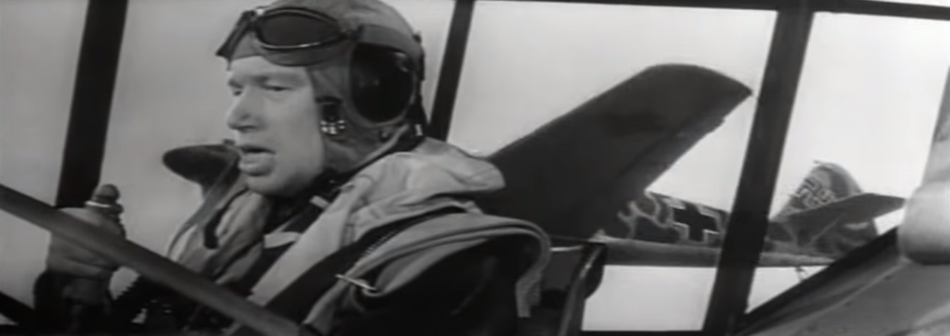 Heinz Reincke in The Longest Day - trailer (cropped screenshot)